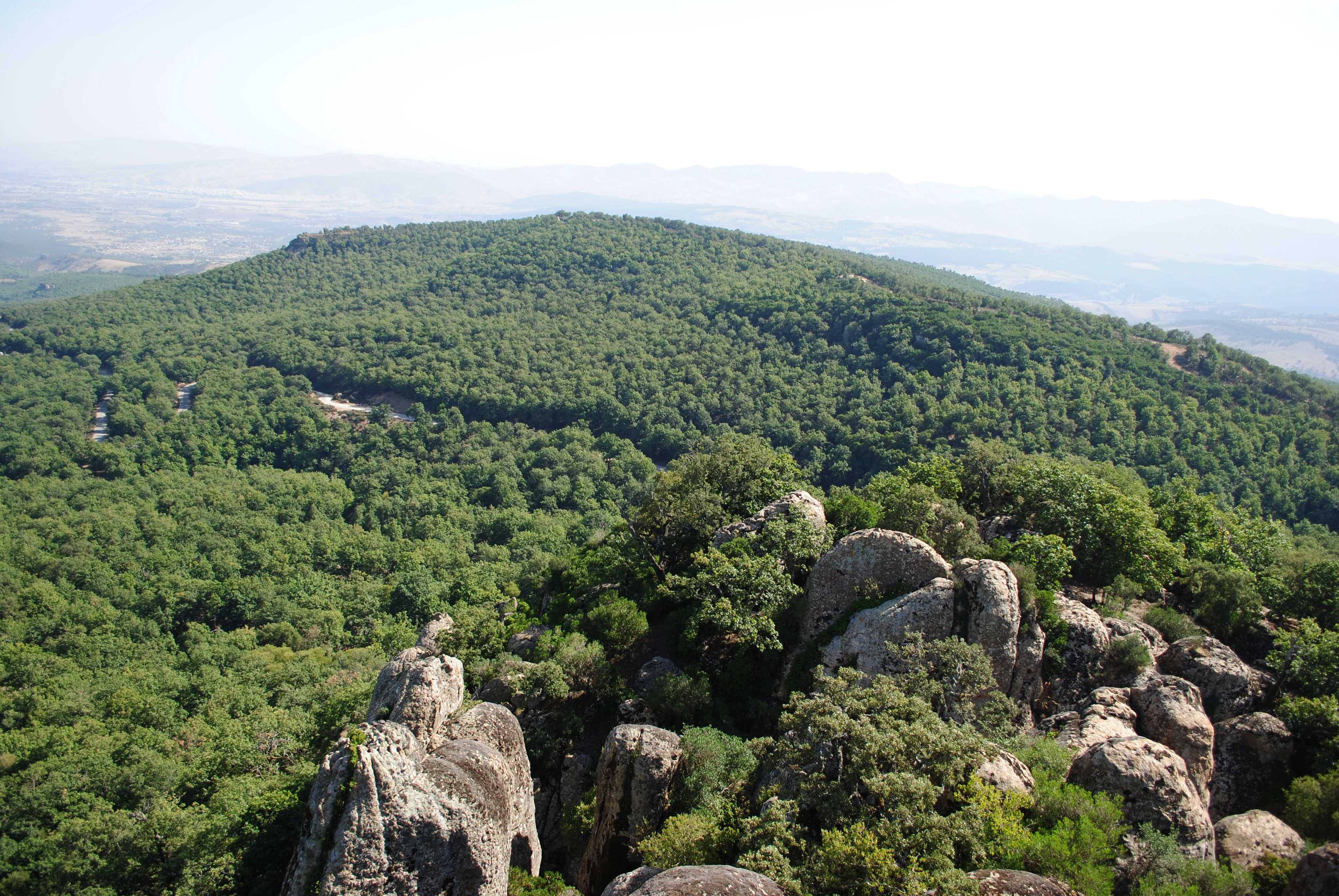 Le parc national d'El Feija (المحمية الوطنية بالفايجة)